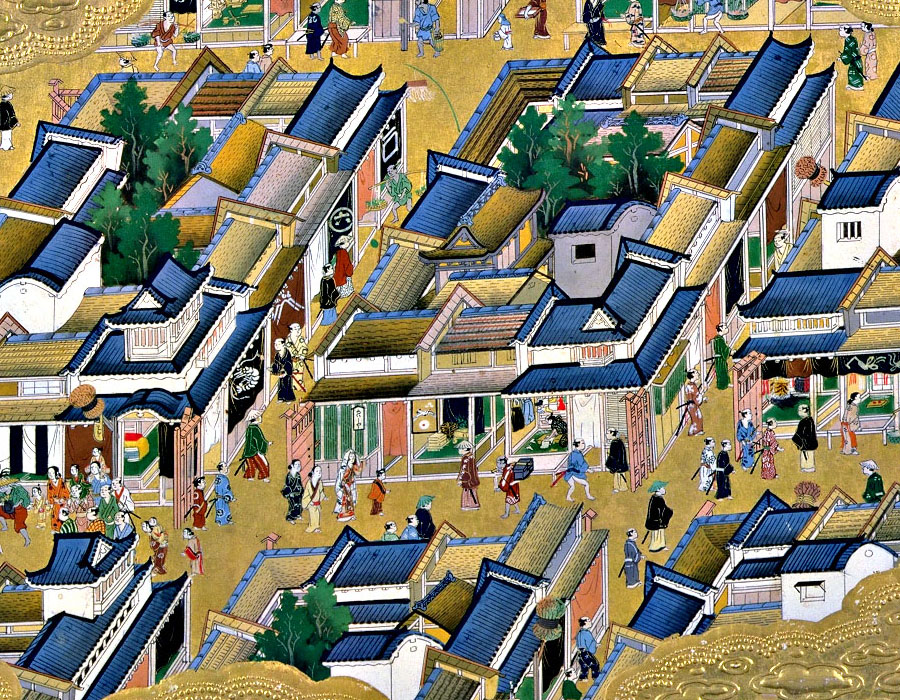 LOWER MIDDLE OF FIRST PANEL, Left Screen (Third enciente of Edo Castle, Kanda, Merchant's shop in Edo). "View of Edo" (Edo zu) pair of six-panel folding screens (17th century).